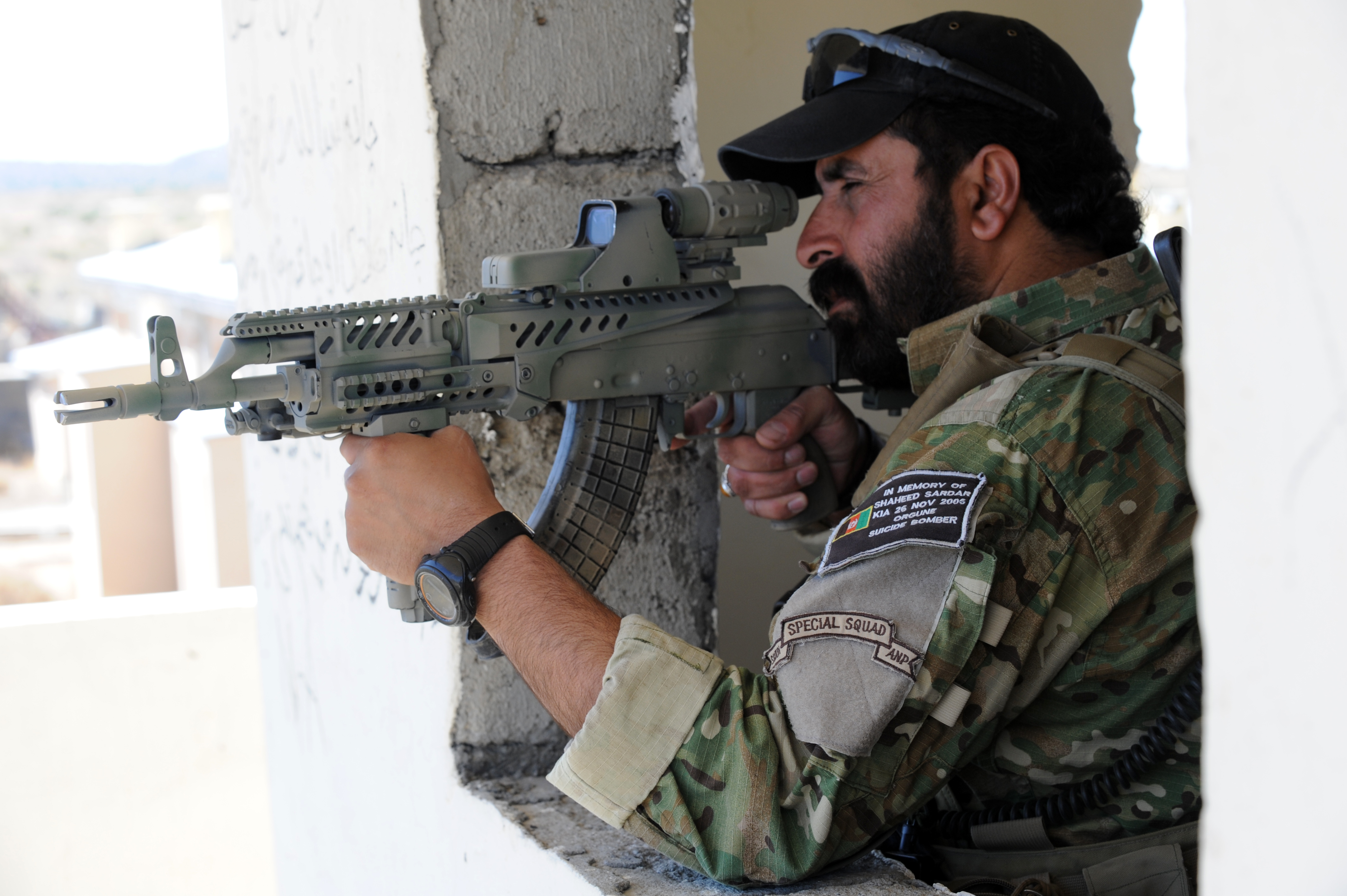 Afghan National Police Commander Azizullah uses the scope on his AMD-65 rifle to scan the area for insurgent activity along the Afghan and Pakistan border, Paktika province, Afghanistan, Sept. 23, 2010. (U.S. Army photo by Sgt. Justin P. Morelli / Released).